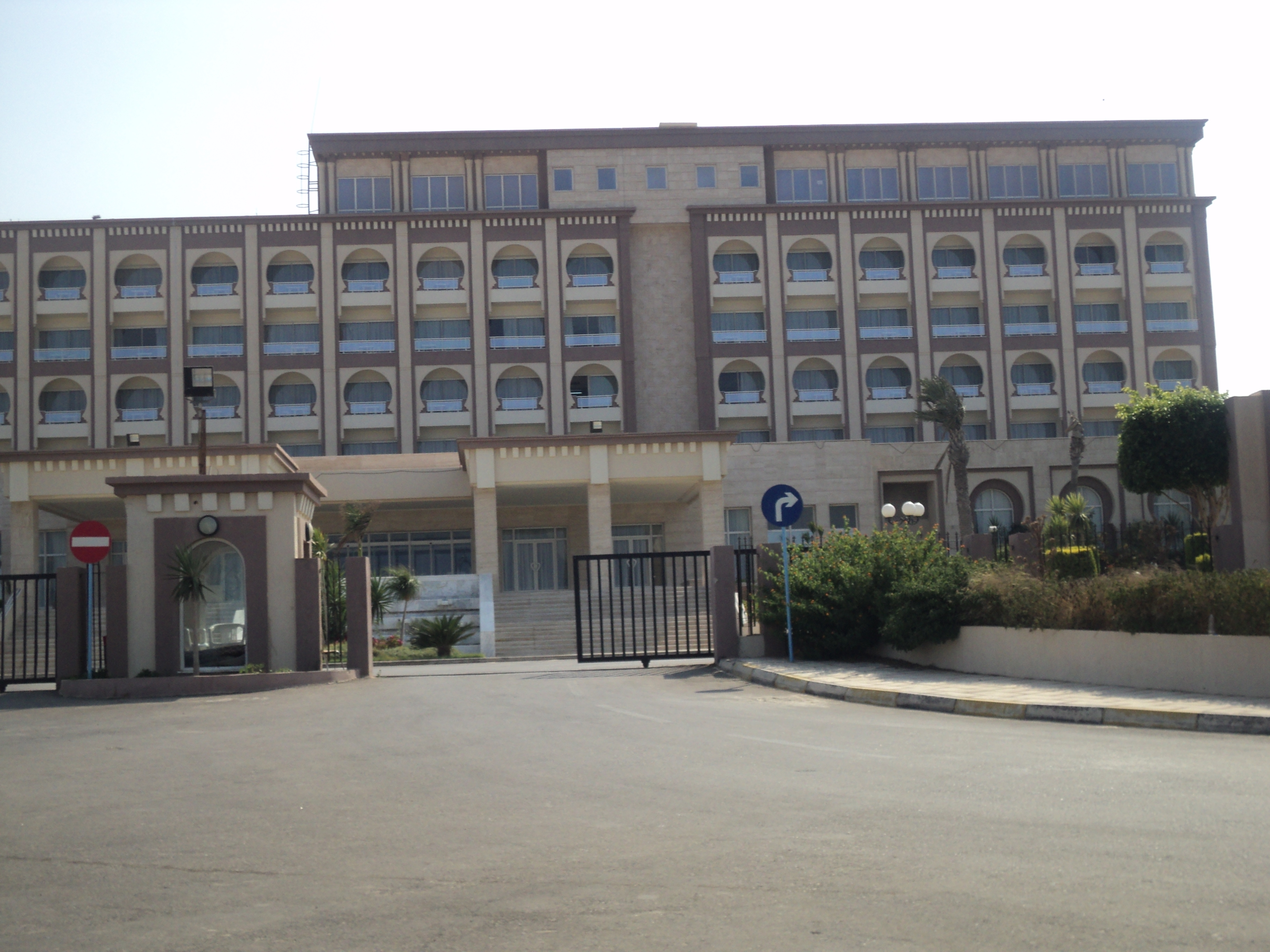 Lo'lo'et Derna Hotel, Derna.